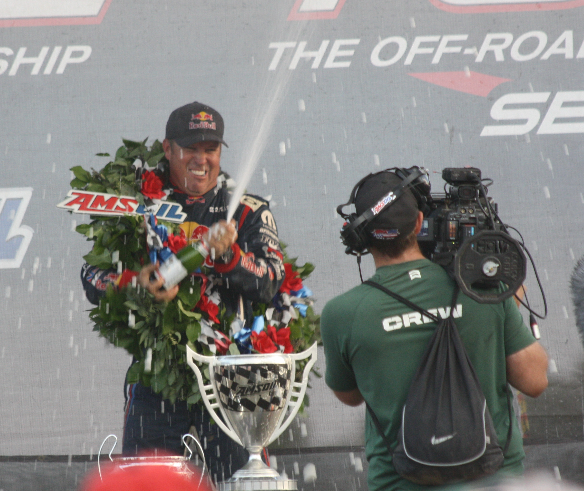 Ricky Johnson celebrate his 2012 win of the AMSOIL Cup, the world championship race in short-course off-road racing.